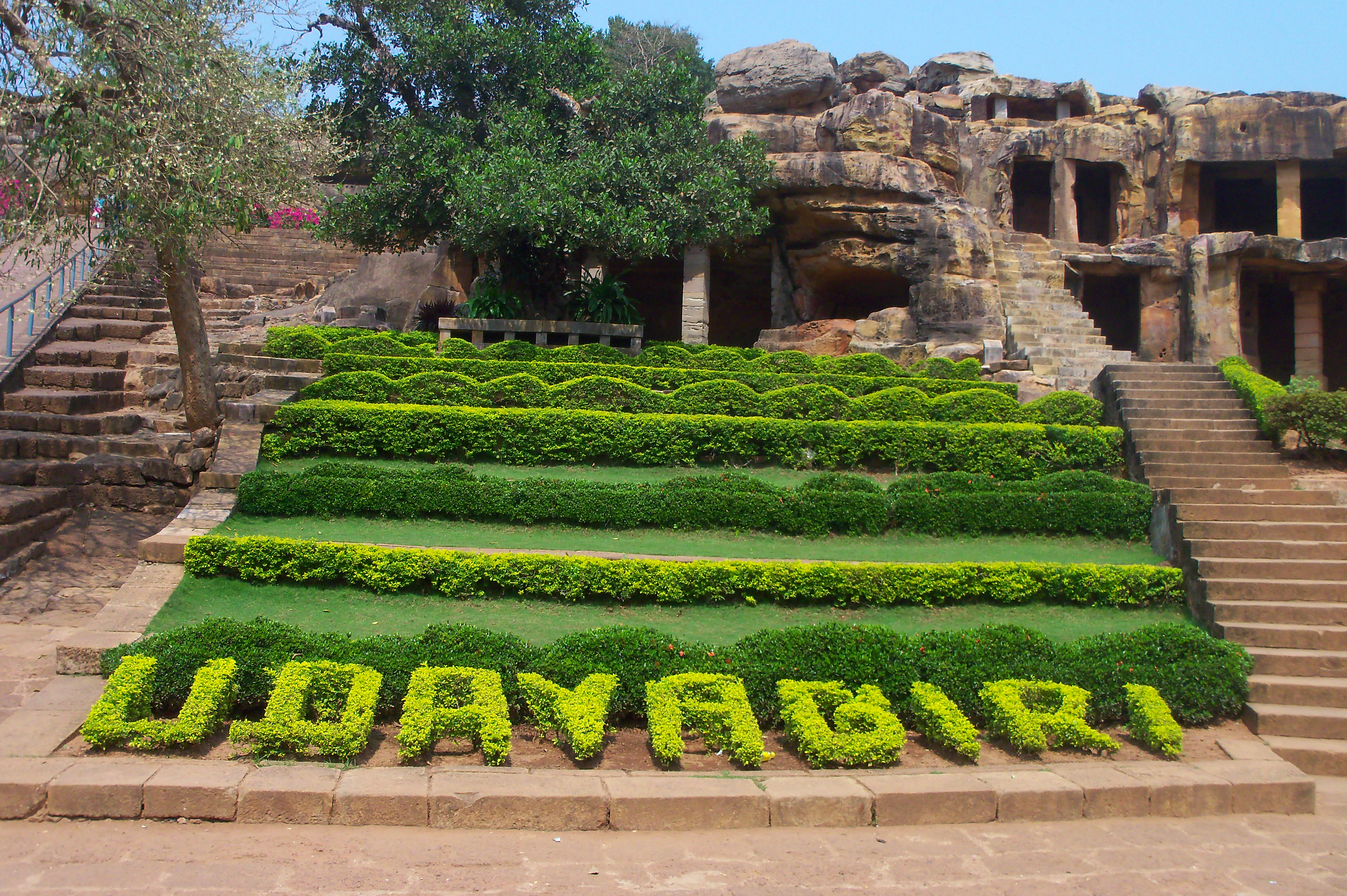 Udayagiri puri